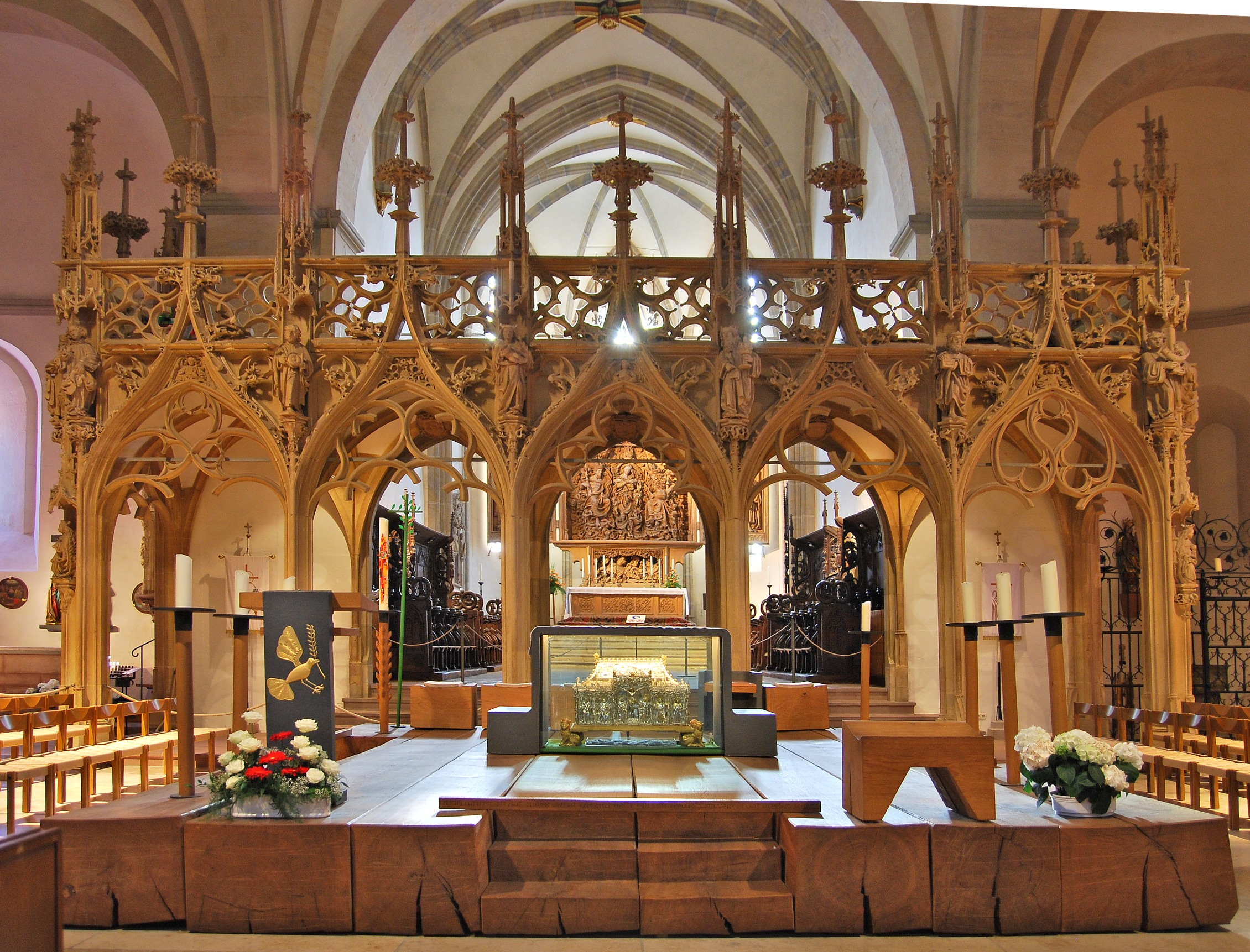 Breisach Minster rood screen.